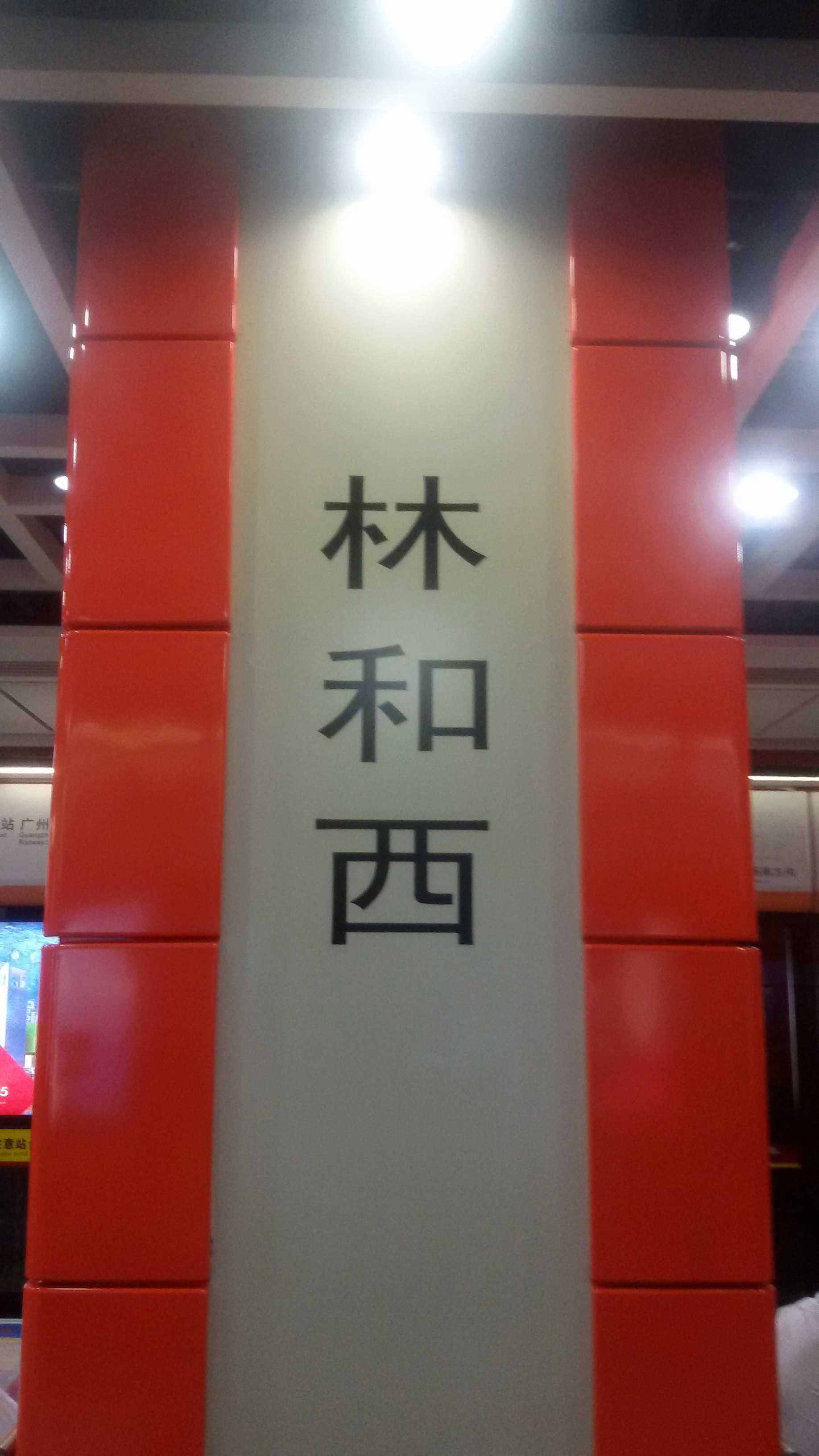 WORD ON PILLAR for Linhexi Station, Guangzhou Metro. 粵語: 林和西站嘅柱上面啲字